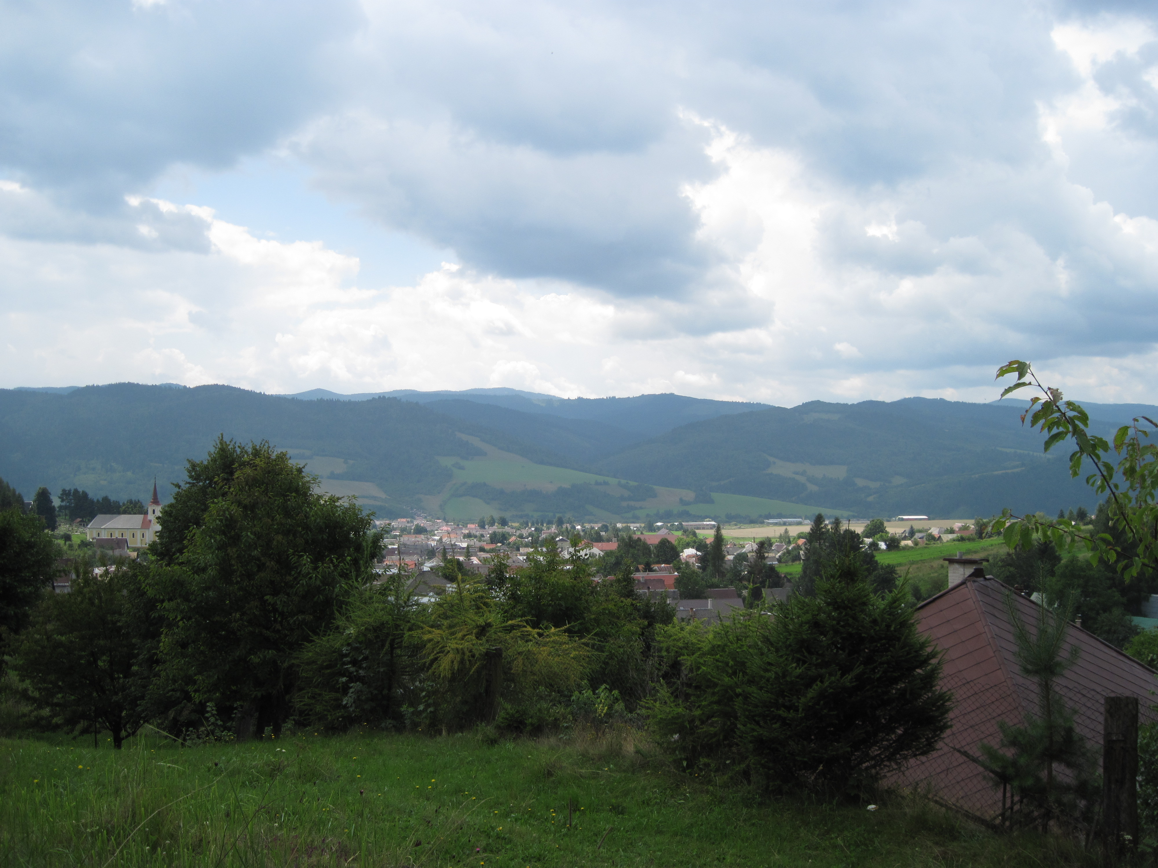 Pohorela Slovakia